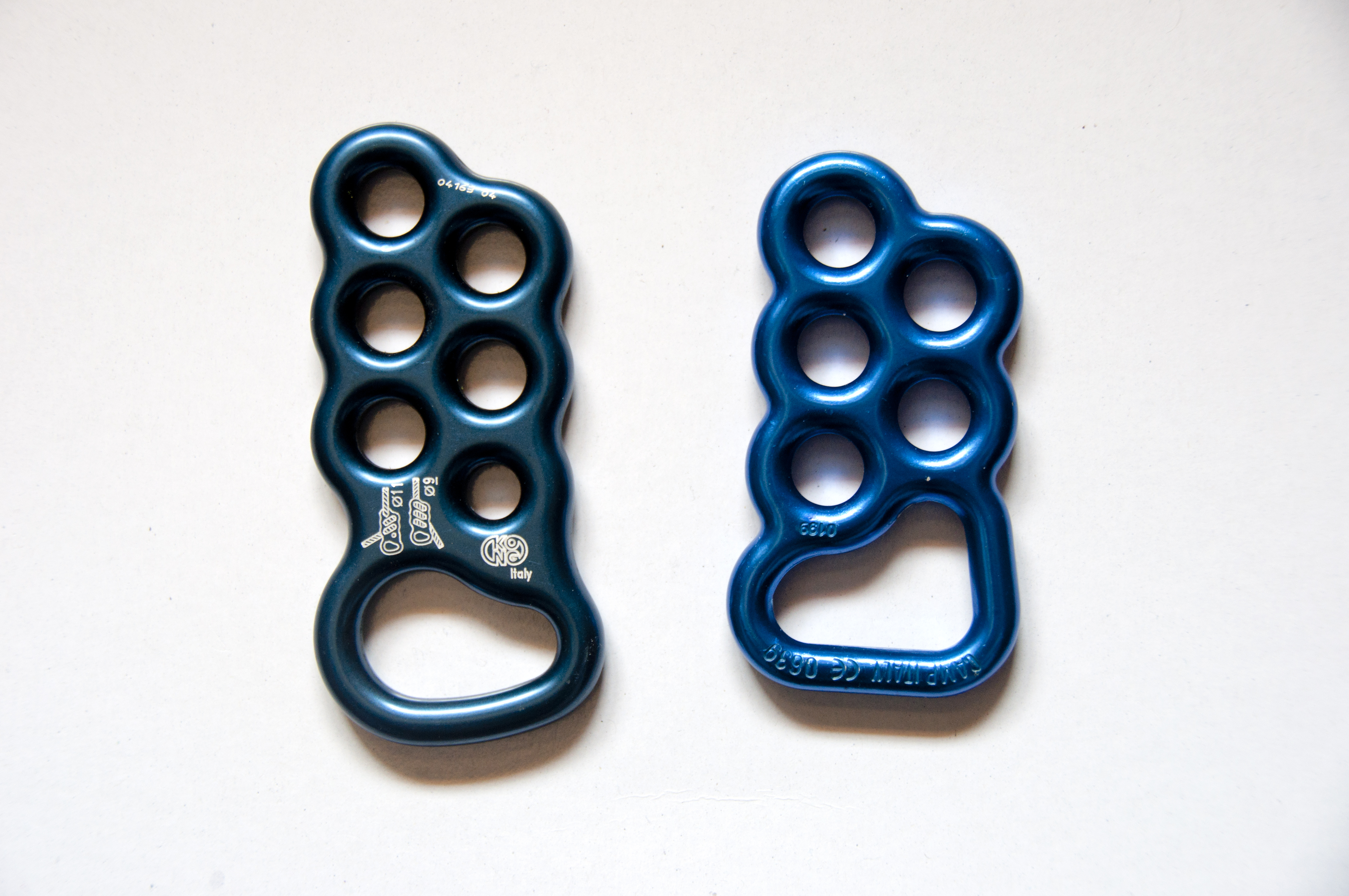 KONG friction Plates designed for via ferrata; the left model is KISA (Kong Impact Shock Absorber)